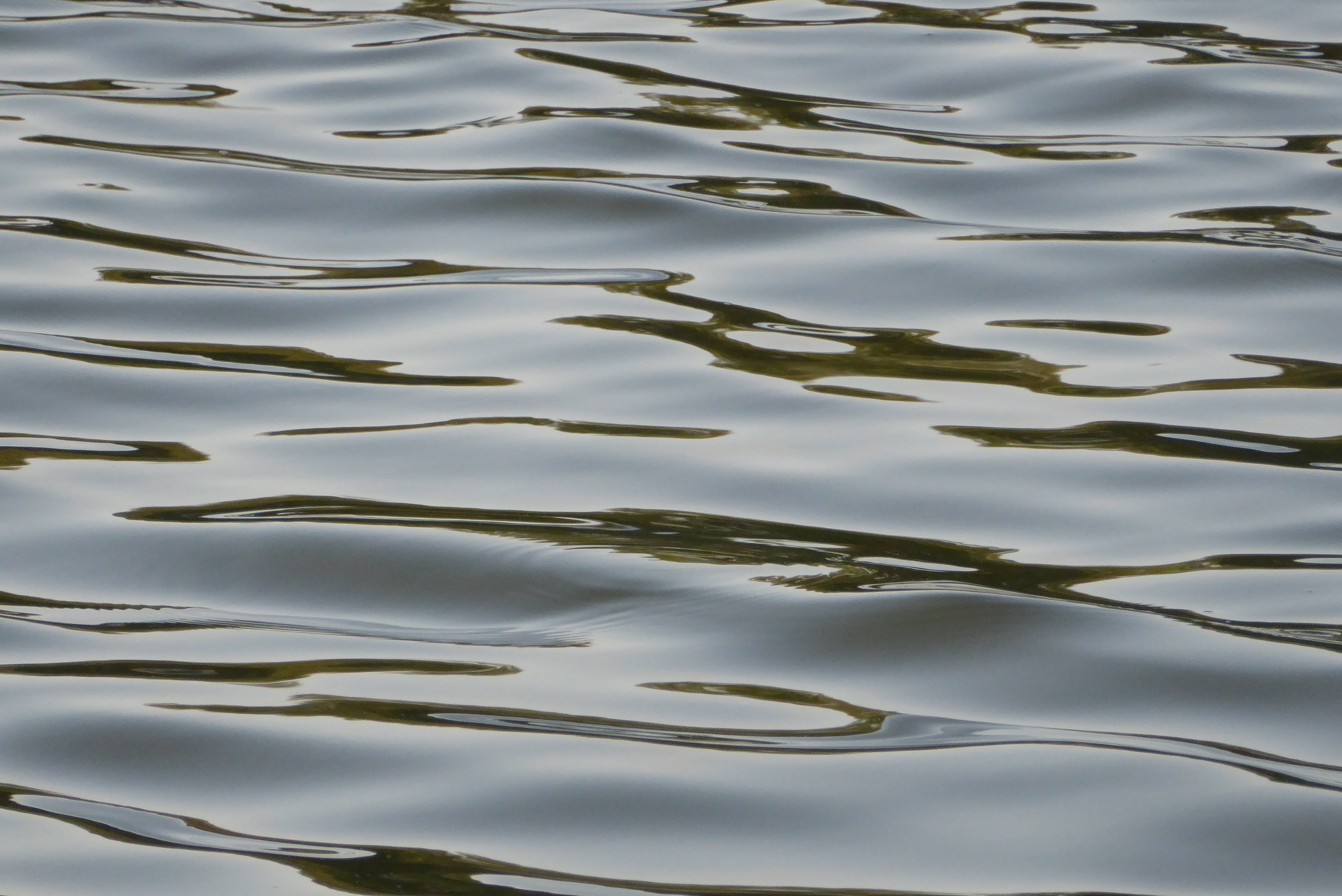 Waves in the water of Ramat Gan, National Park, Ramat Gan